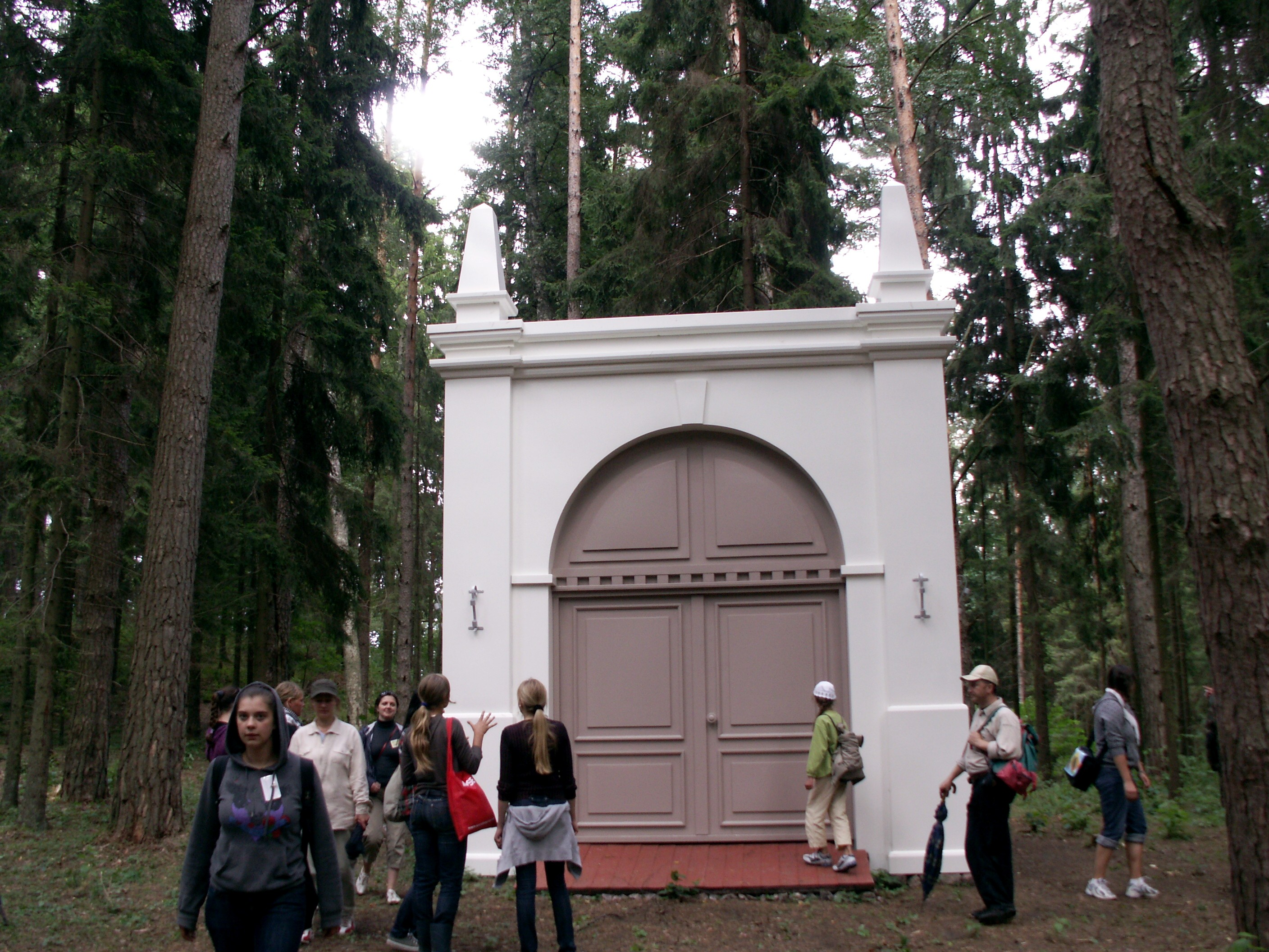 Liepkalnis in Laisvučiai, Palace of rulers - 2, Šiauliai district, Lithuania